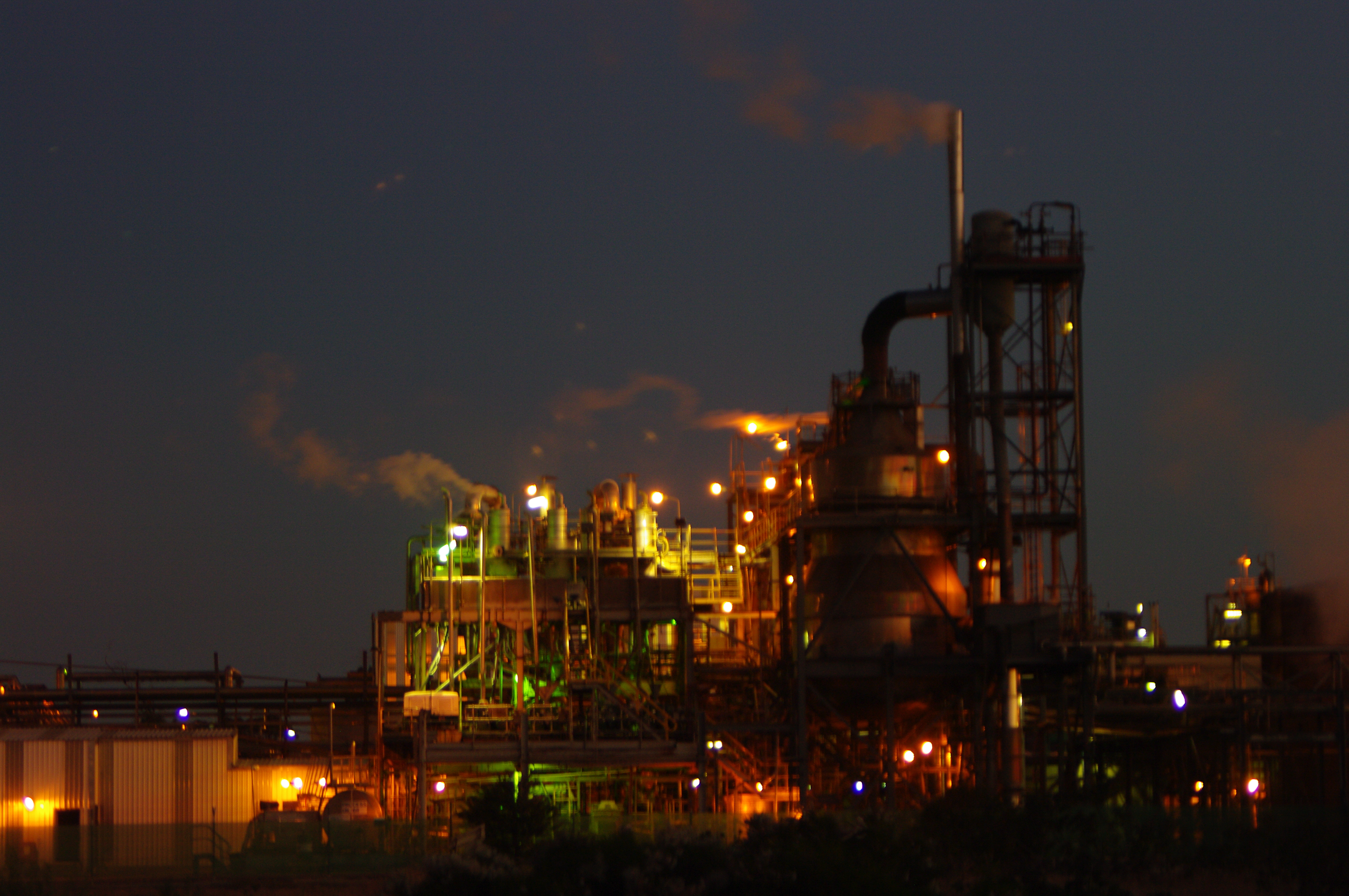 Factory in Kwinana at night